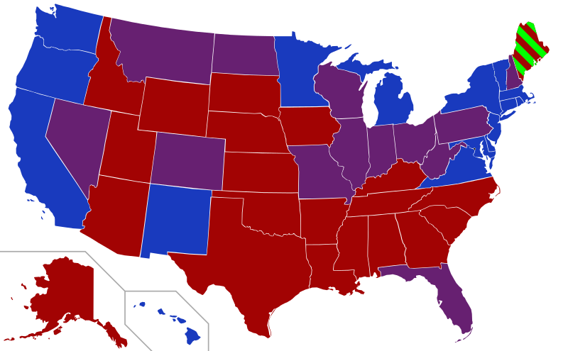 U.S. Senate party membership by state. States with two Democratic senators are in blue, states with two Republican senators are in red, and those with one of each are in purple. Maine is designated with green and red stripes, signifying its one Republican and one Independent senator.